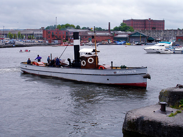 The Mayflower, Floating Harbour. The Mayflower is a steam tug, which is normally moored outside the Industrial Museum 34173. The tug was built in Bristol in 1861 by Stothert & Marten, and was in use in Gloucestershire around Sharpness, originally on the canal and later on the River Severn. Her working life finished in 1964. Full details about the Mayflower can be found here